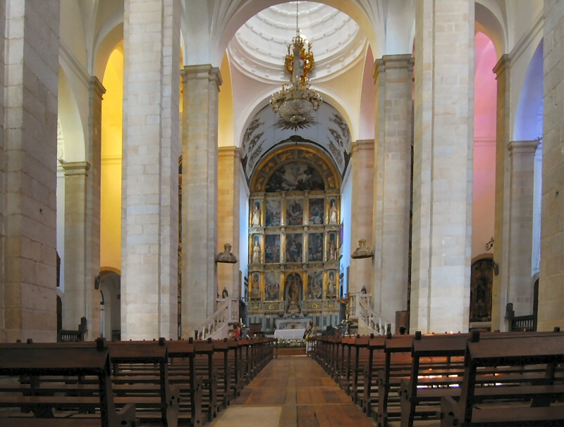 Portalegre_Municipality